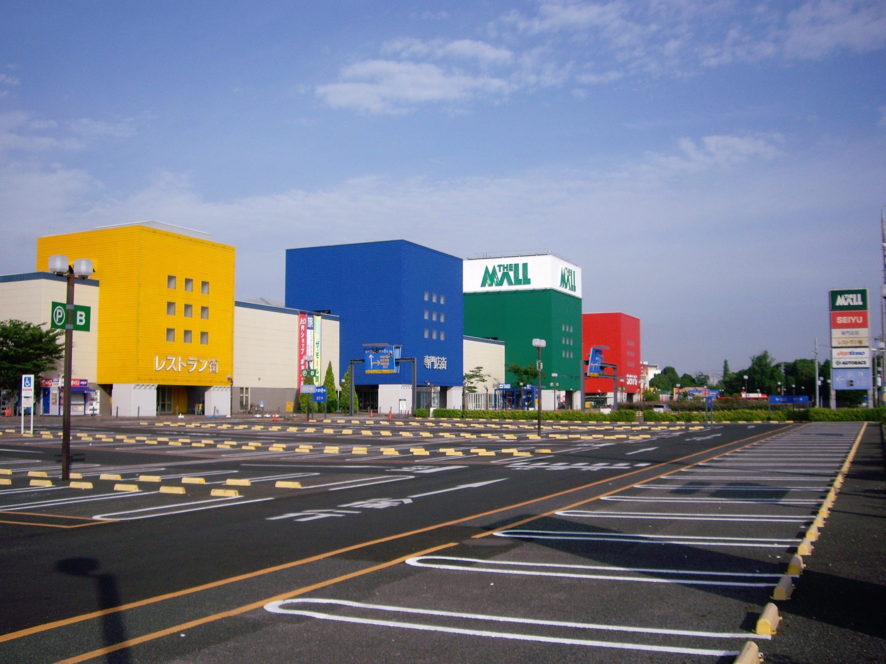 "THE MALL ANJO", shopping mall in Anjo city.